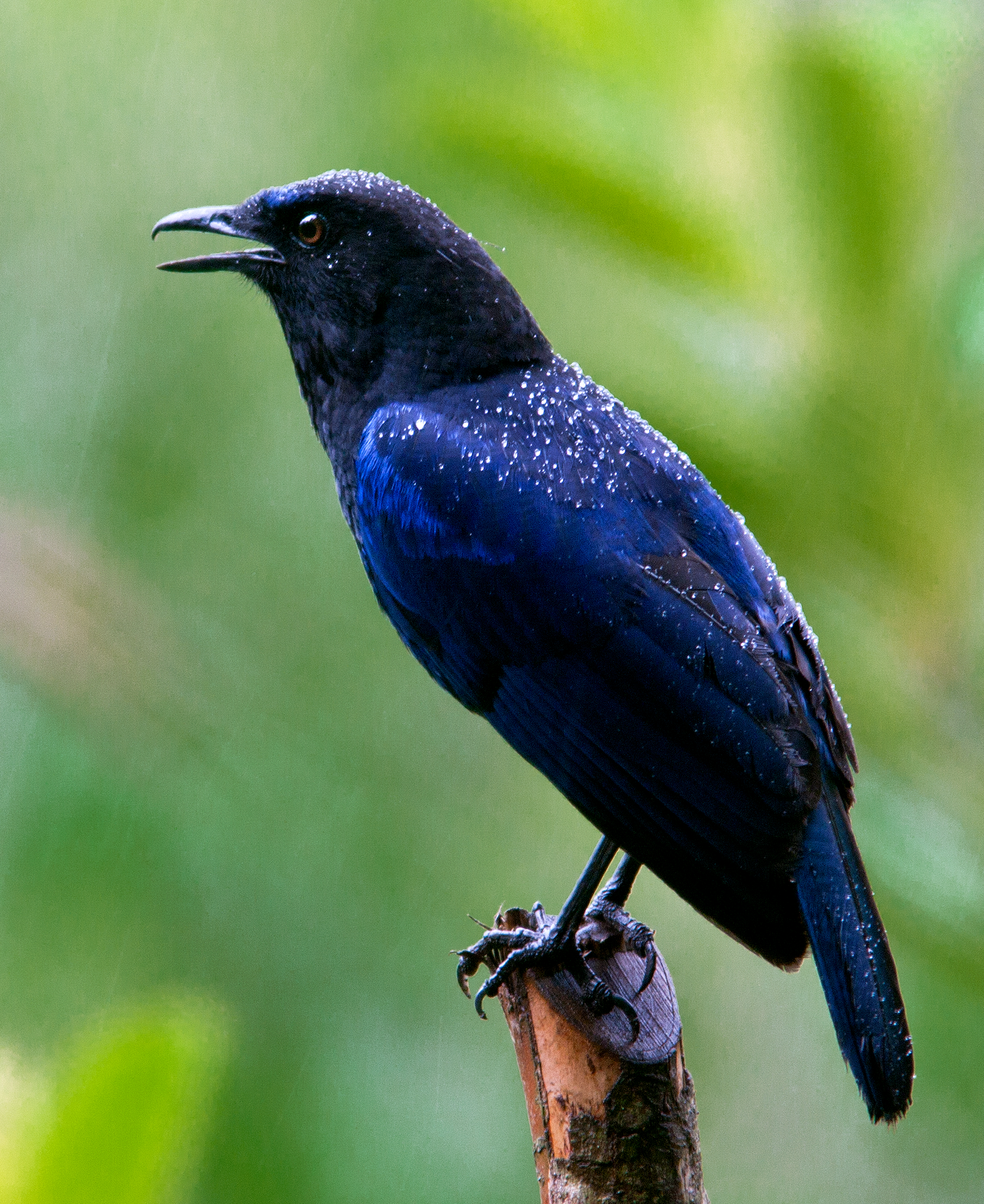 Malabar Whistling Thrush (Myophonus horsfieldii).